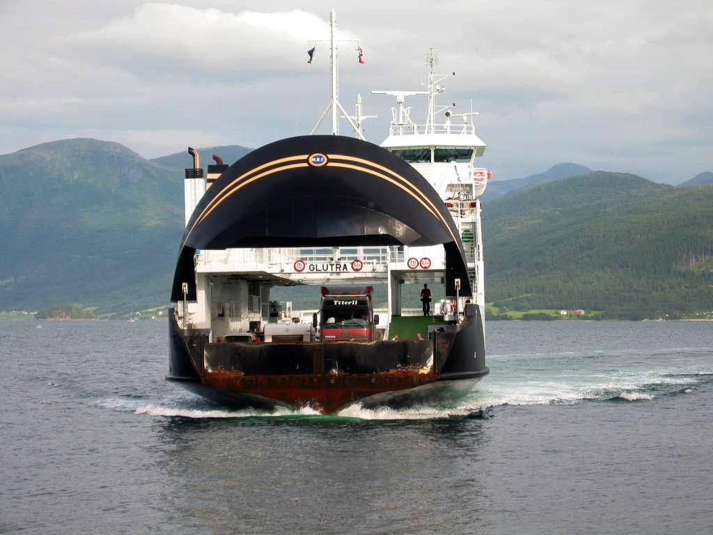 Norwegian car ferry MF Glutra at Seivika in Kristiansund, 2002